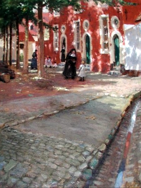 The Red Houses